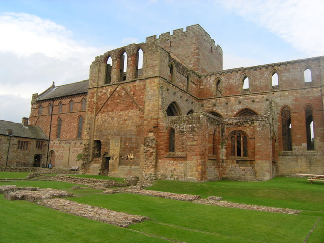 Lanercost Priory. Shermozle